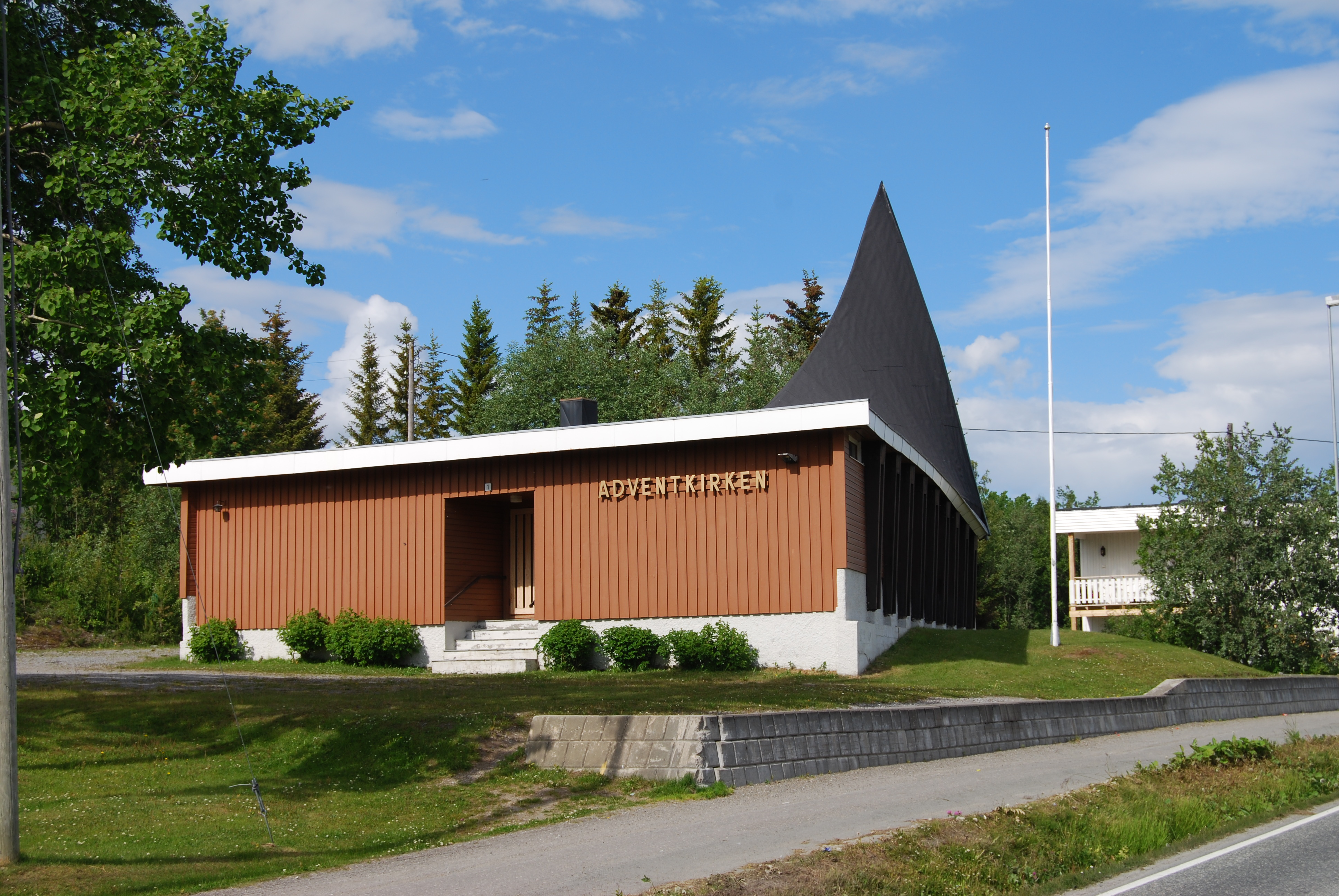 Adventkirken Indre Senja, Norway.